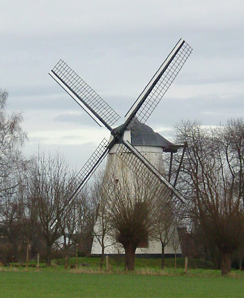 The Tiège windmill in Nil-Saint-Vincent, Walhain, Belgium. Photograph taken by myself on 4th March 2007.